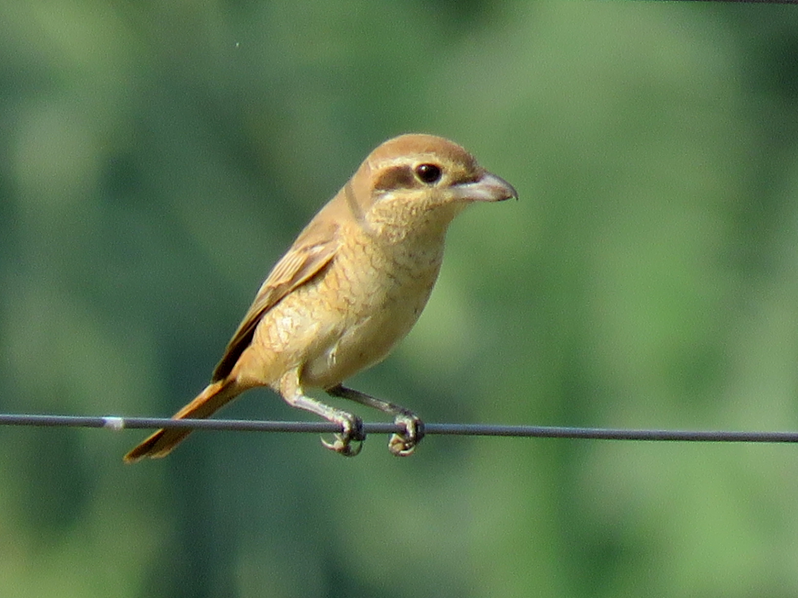 Brown shrike_IMG 4762